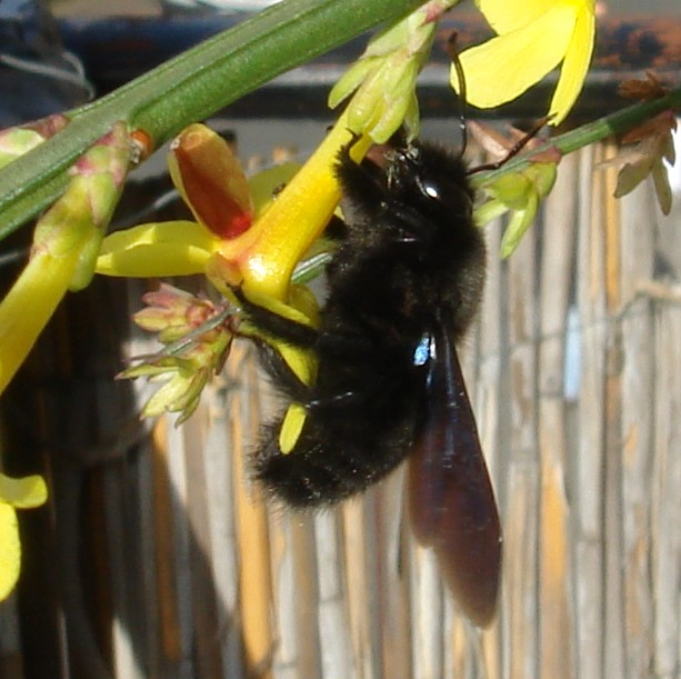 Carpenter bee robbing nectar from Jasminum nudiflorum (Frankfurt on the Main, 22 February 2007, Germany)